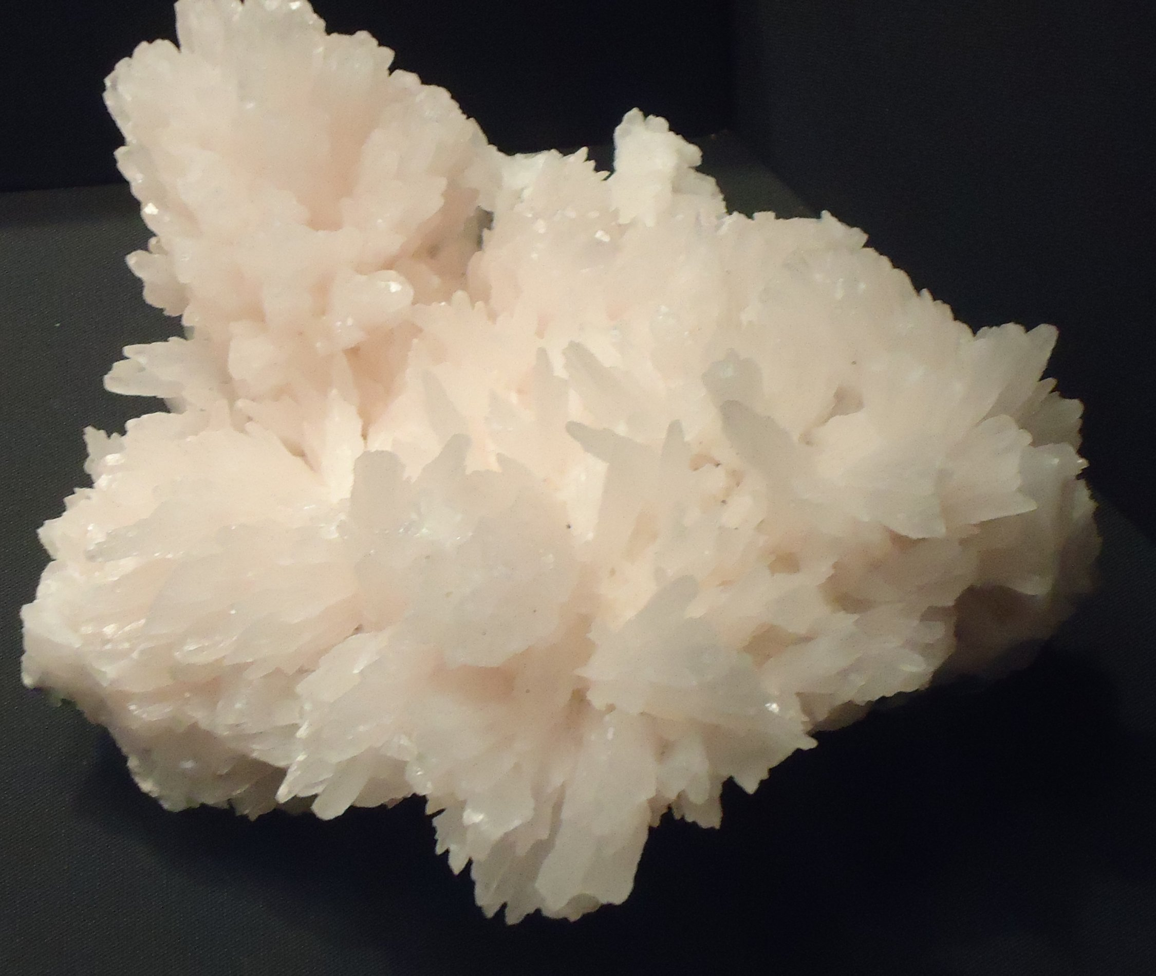 A pink Aragonite Crystal